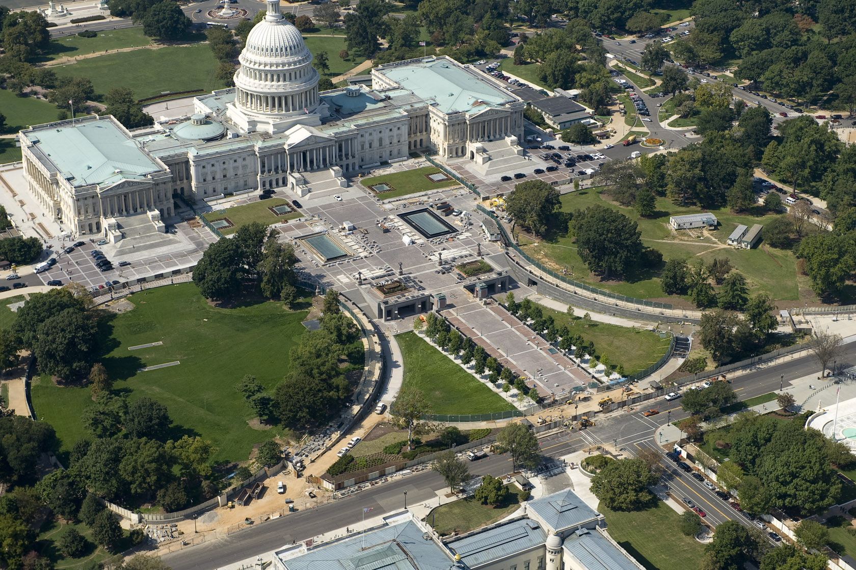 The Plaza of the Capitol Visitor Center